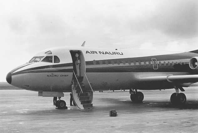 Plane of Air Nauru